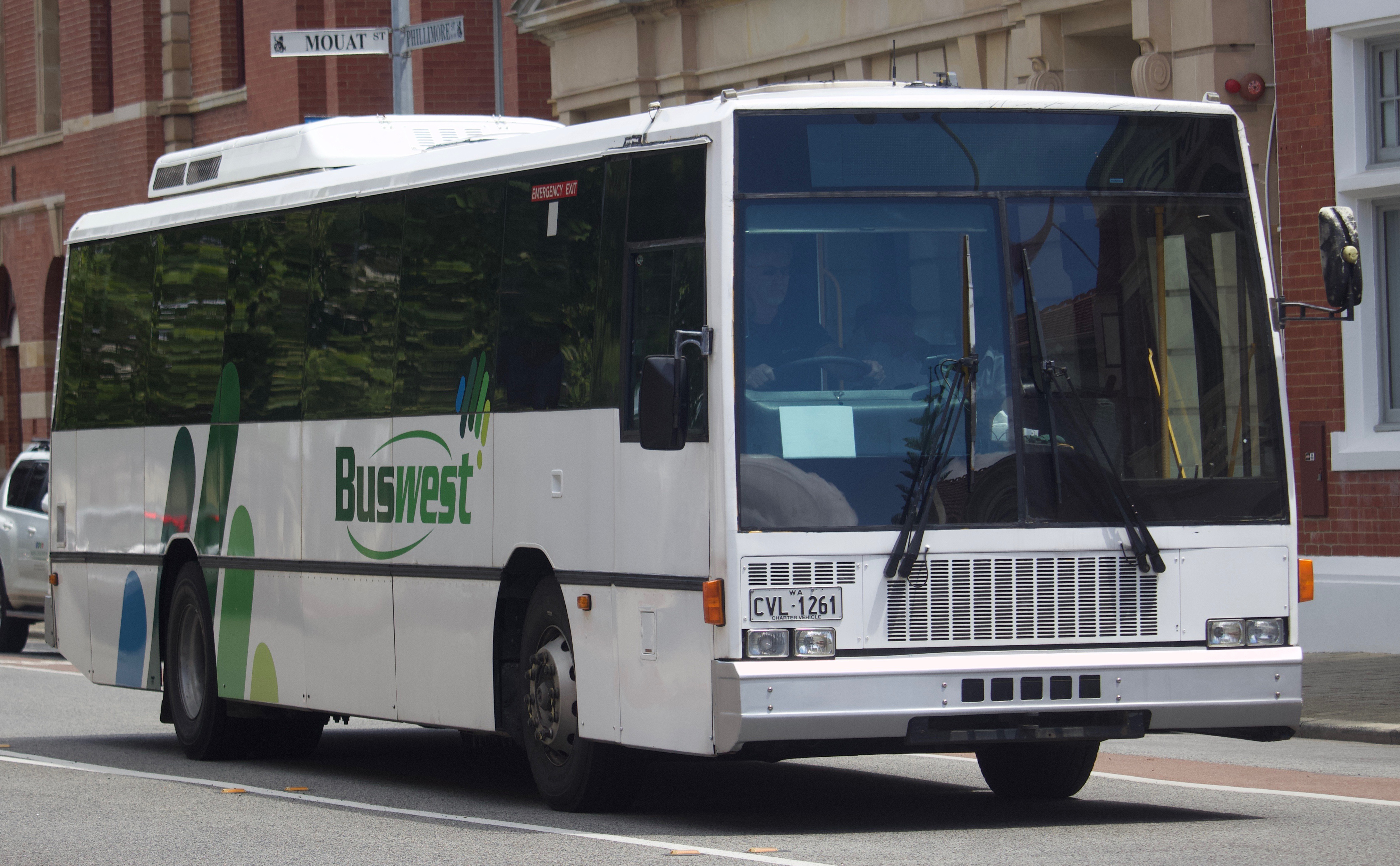 Austral Denning Metroliner bodied Volvo B10M Mk IV (ex Brisbane Transport 540CQD and 540IVB; built: 1995) operating as a private charter vehicle for BusWest